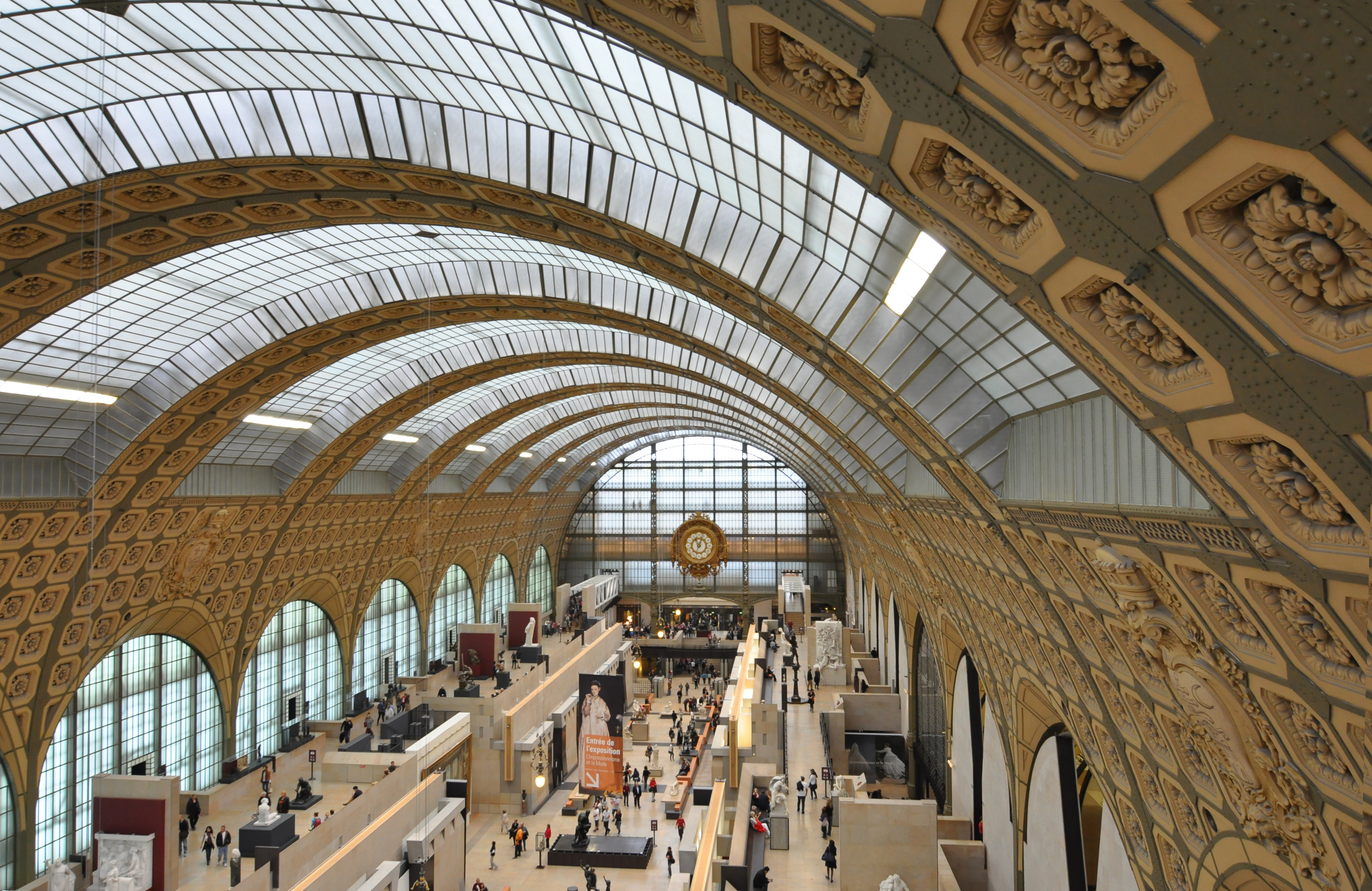 Musée d'Orsay in Paris, 7th arrondissement, France.